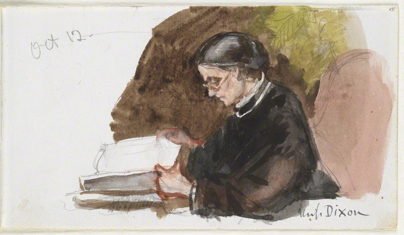 Watercolour and pencil, 87 mm x 150 mm. Half-length, side profile of a woman (Annie Dixon) in a brown dress. She is wearing glasses and appears to be reading a book.